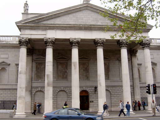 Irish House of Lords entrance. No copyright, my photo